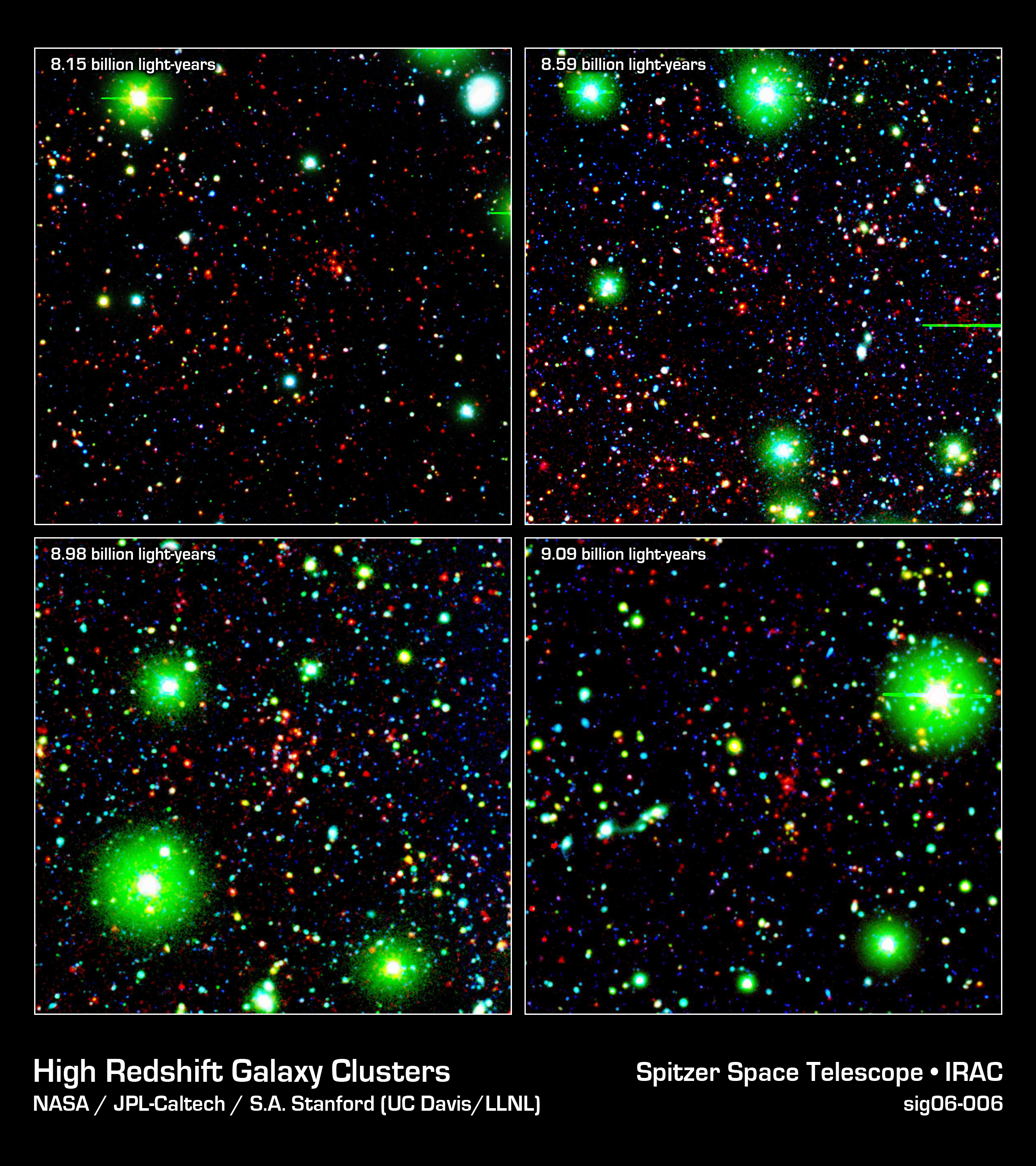 Great Galactic Buddies